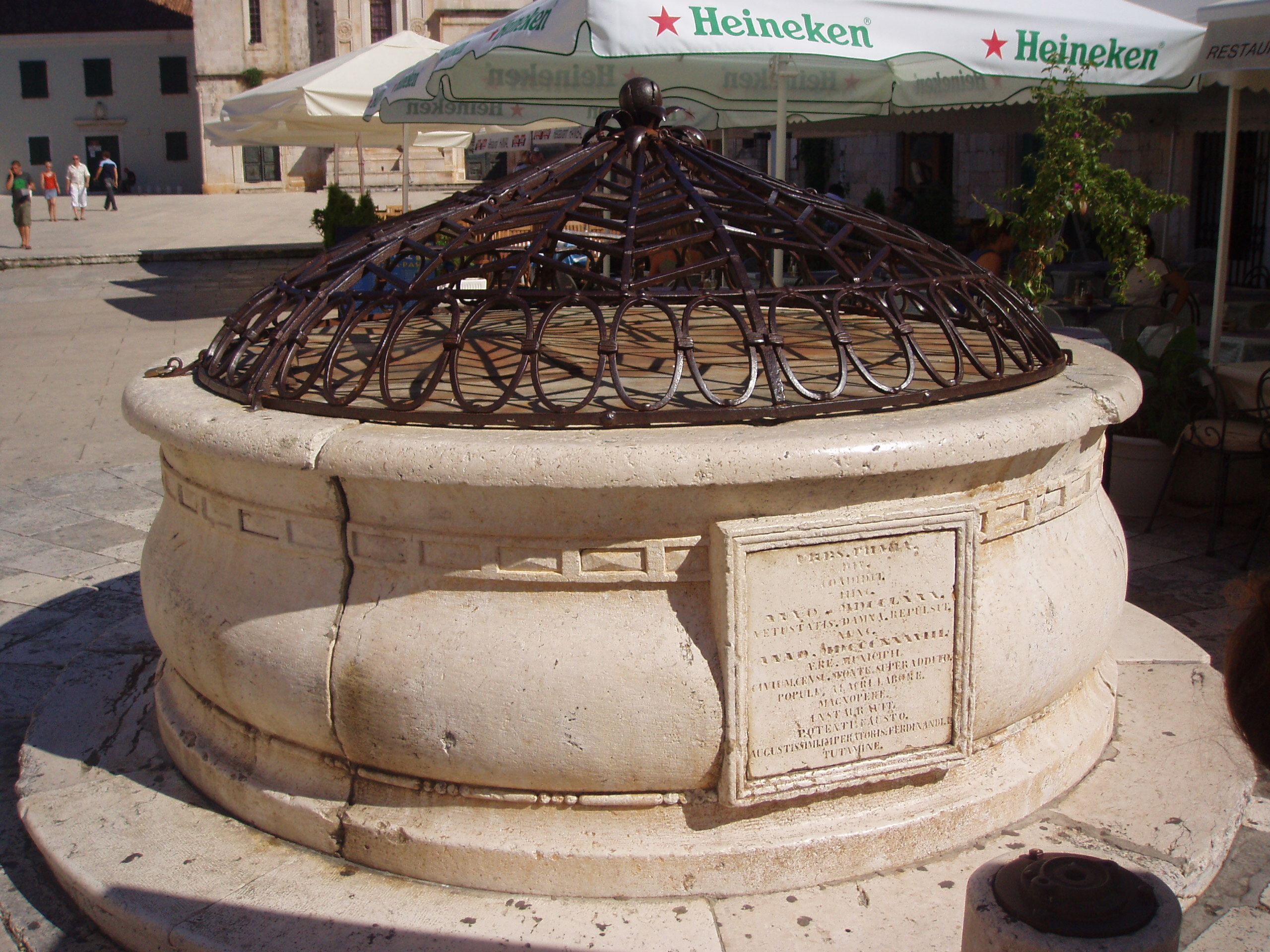 The well - the main square in Hvar